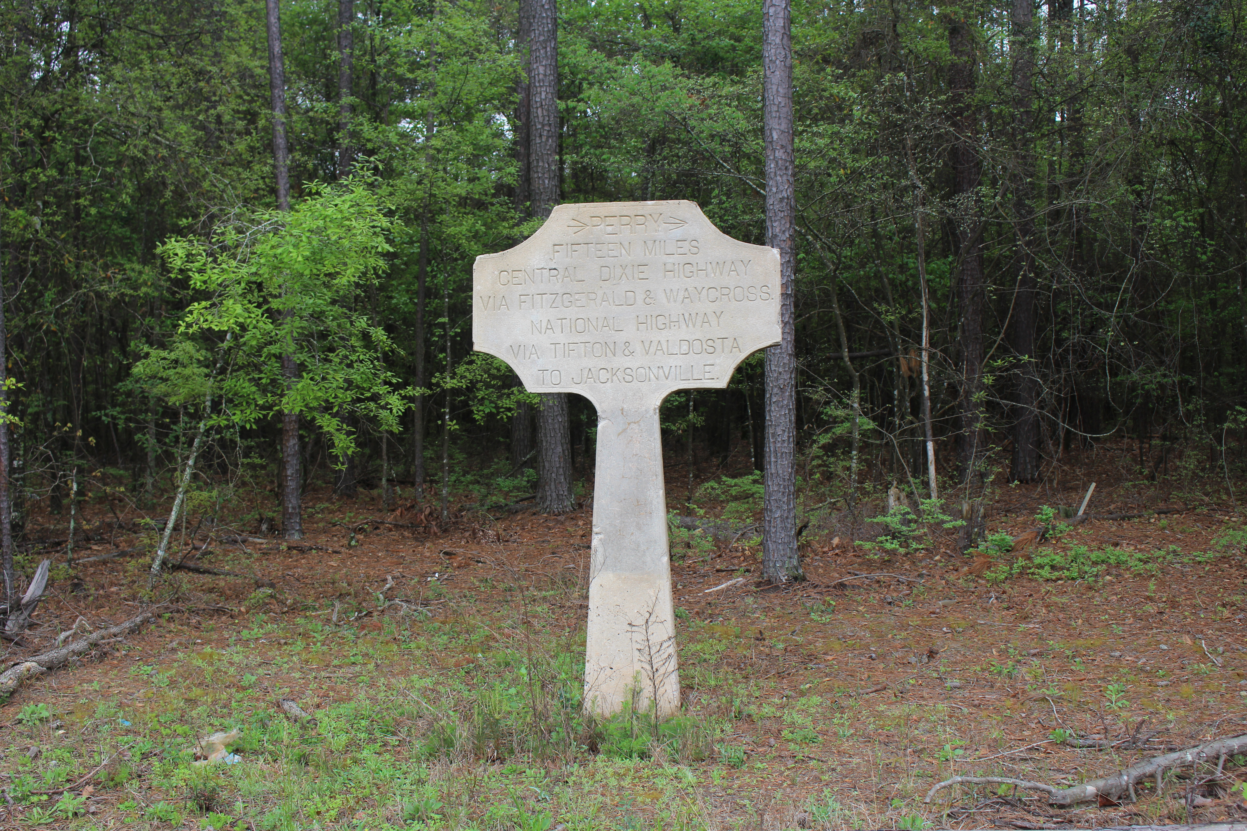 Central Dixie Highway marker, US41, Houston County, Georgia. The marker reads Perry - 15 miles. Central Dixie Highway via Fitzgerald & Waycross. National Highway via Tifton & Valdosta to Jacksonville.